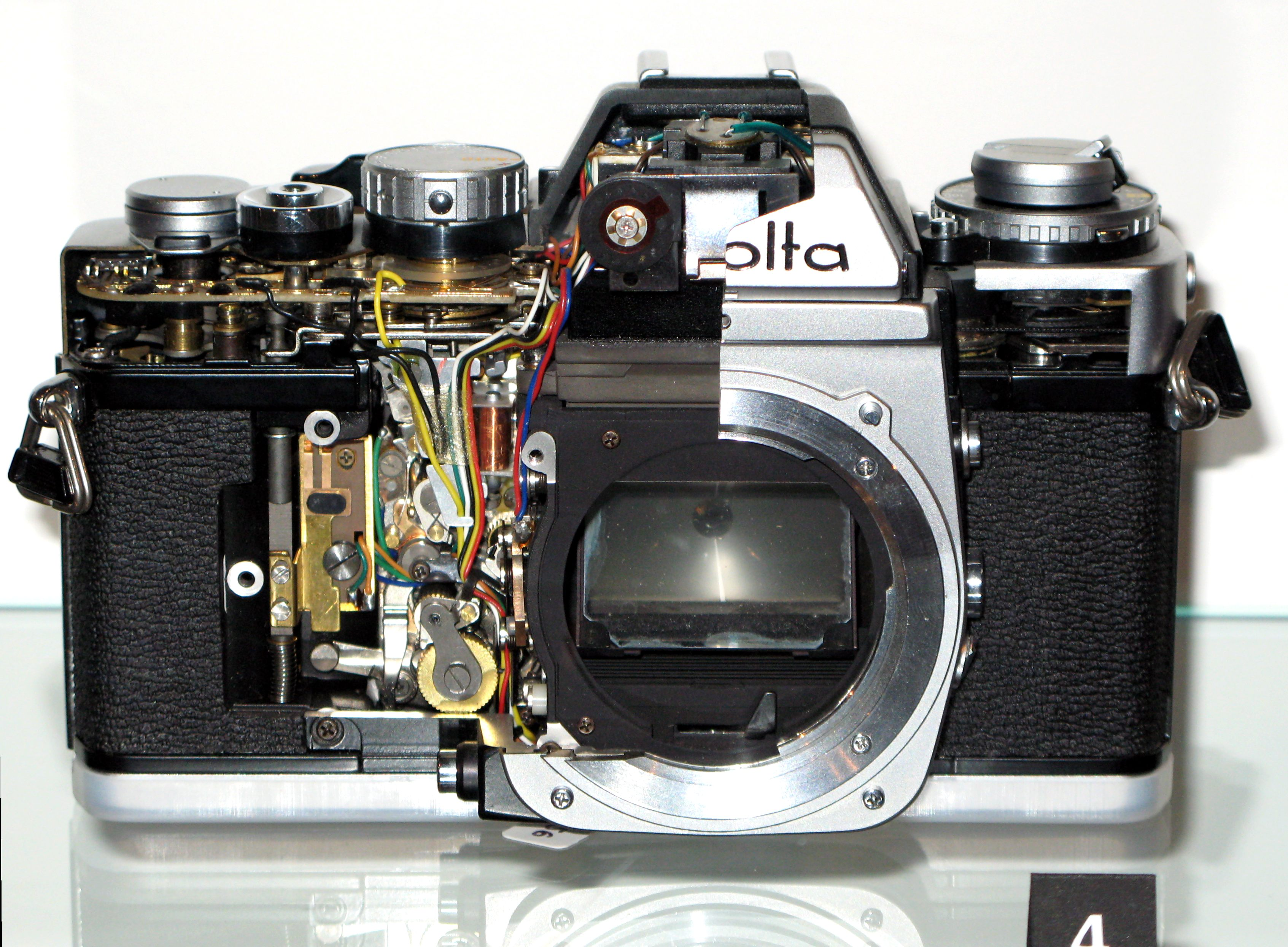 Cut-over Minolta SLR camera on display at Vevey photography museum